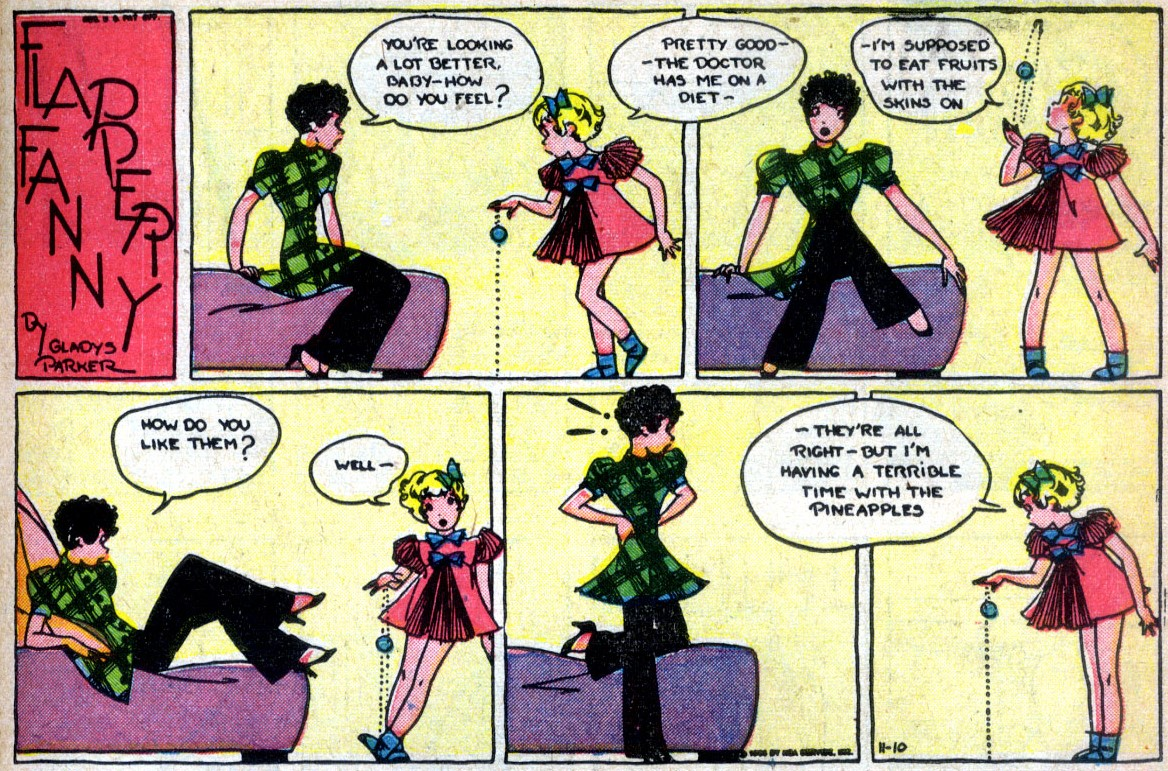 Flapper Fanny comic from page 43 of The Funnies, #5